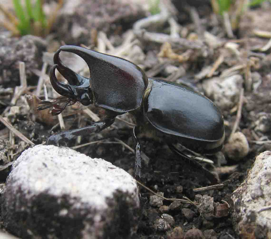 Photograph by Dirk van der Made (User:DirkvdM - for more photos see user:DirkvdM/Photographs). A Rhinoceros Beetle near Santa Fé, Panamá, 28 April 2004. Does anyone know what type of Rhinoceros Beetle exactly this is? 利用者:Ons says it's probably Aegopsis curvicornis trinidaensis, in the tribe of Agaocephalini. Image-Googling didn't give too many results. This looks rather like it, but other pics suggest it should have a shorter 'upper horn'. User:Goliathus, however, confirmed this, referring me to